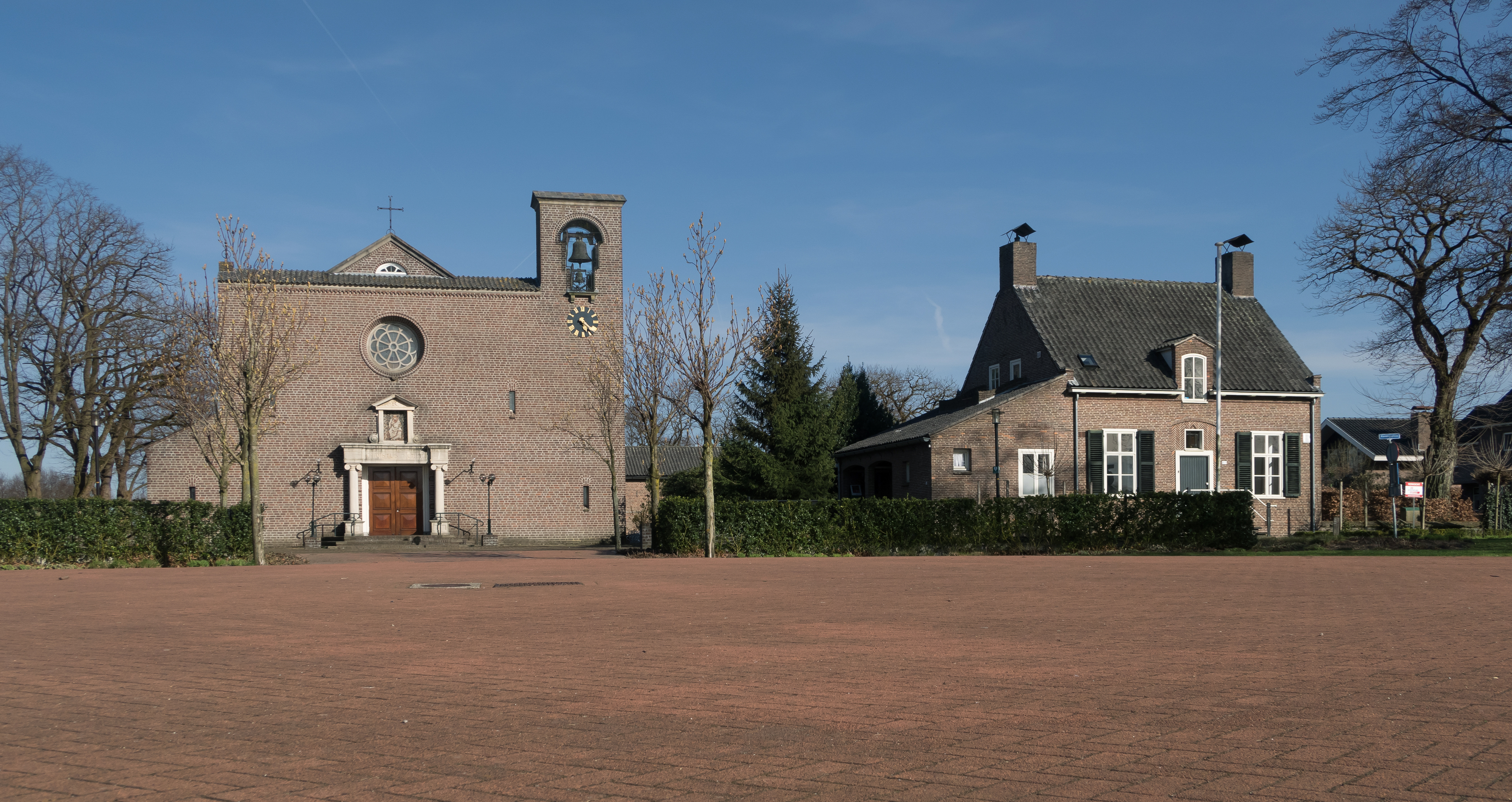 Lievelde, church (de Christus Koningkerk) and the presbytery